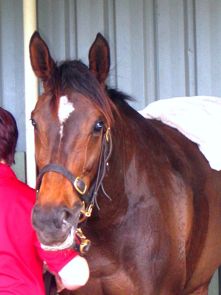 Three time Melbourne Cup winning mare Maykbe Diva after a trackwork session.